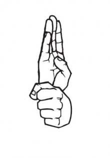 Pak mei salute